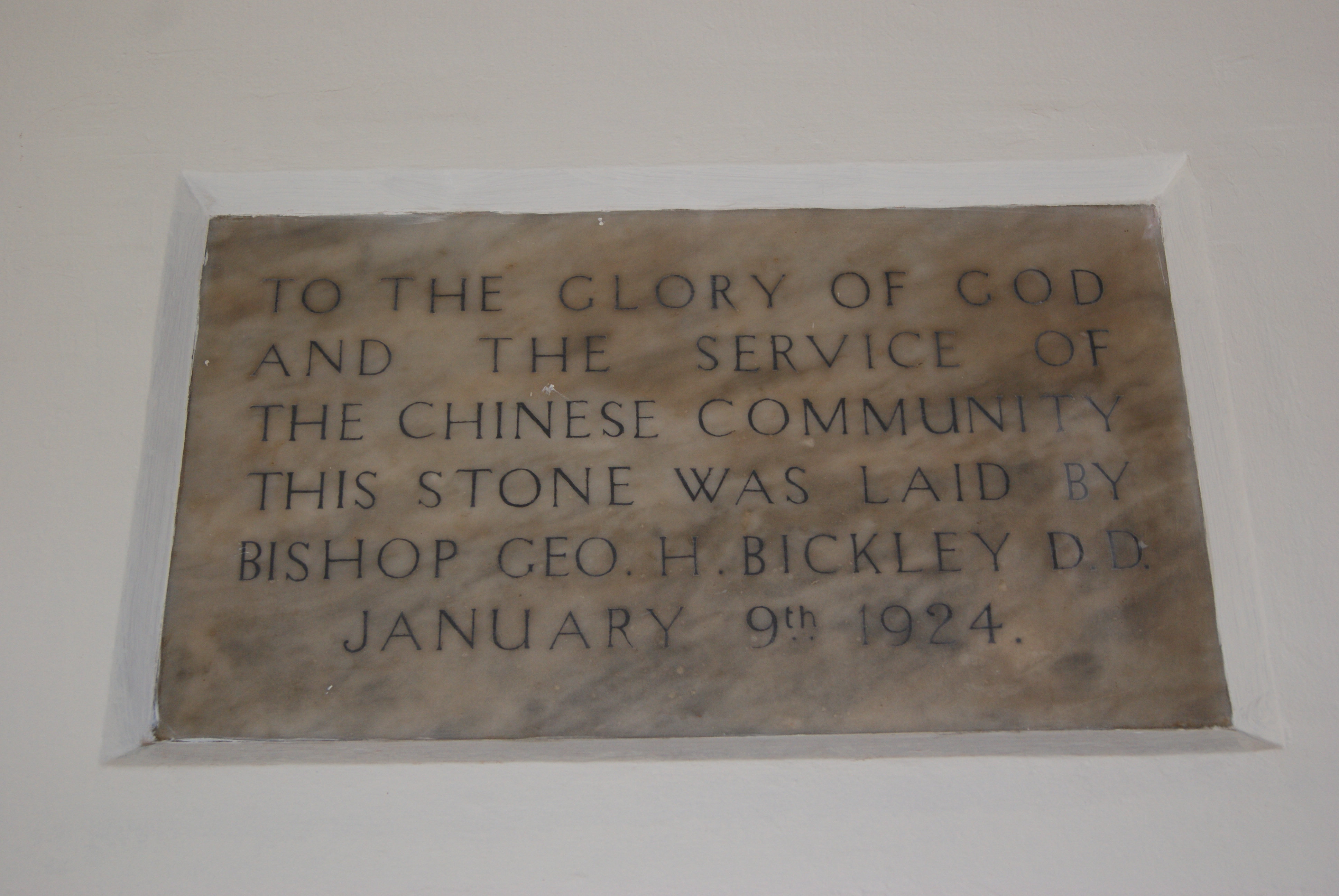 A plaque commemorating the construction of Telok Ayer Chinese Methodist Church, Singapore. The inscription states: TO THE GLORY OF GOD AND THE SERVICE OF THE CHINESE COMMUNITY THIS STONE WAS LAID BY BISHOP GEO. H. BICKLEY, D.D. JANUARY 9th 1924.